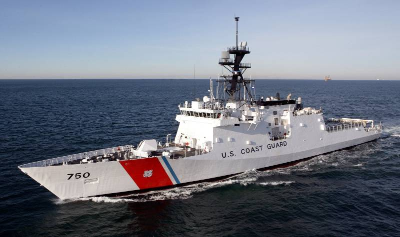 A picture of the USCG National Security Cutter BERTHOLF (WMSL-750)